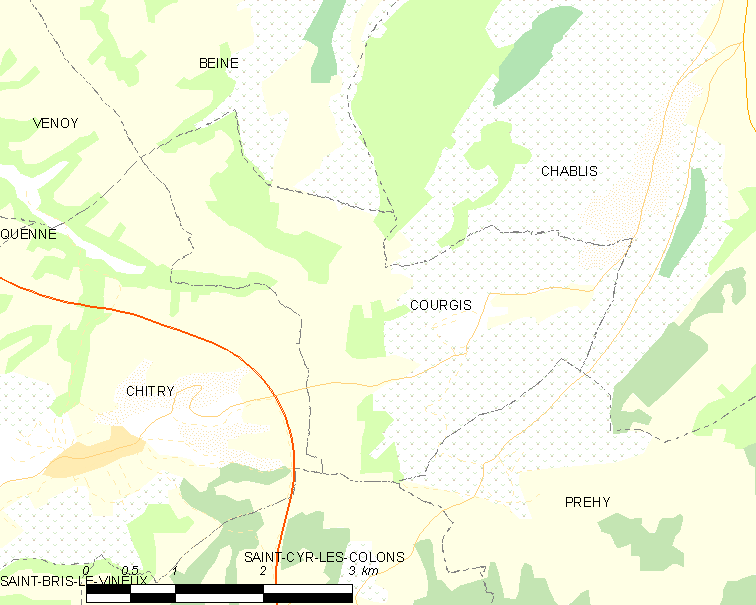 Map of French municipality Courgis